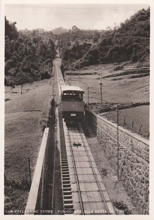 San Pellegrino Funicolar - Vehicle